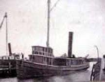 Photograph of the SS Commodore, which sank around 12 miles off Daytona Beach, Florida on January 2, 1897. Author Stephen Crane was on board and later immortalized the wreck in his short story "The Open Boat"